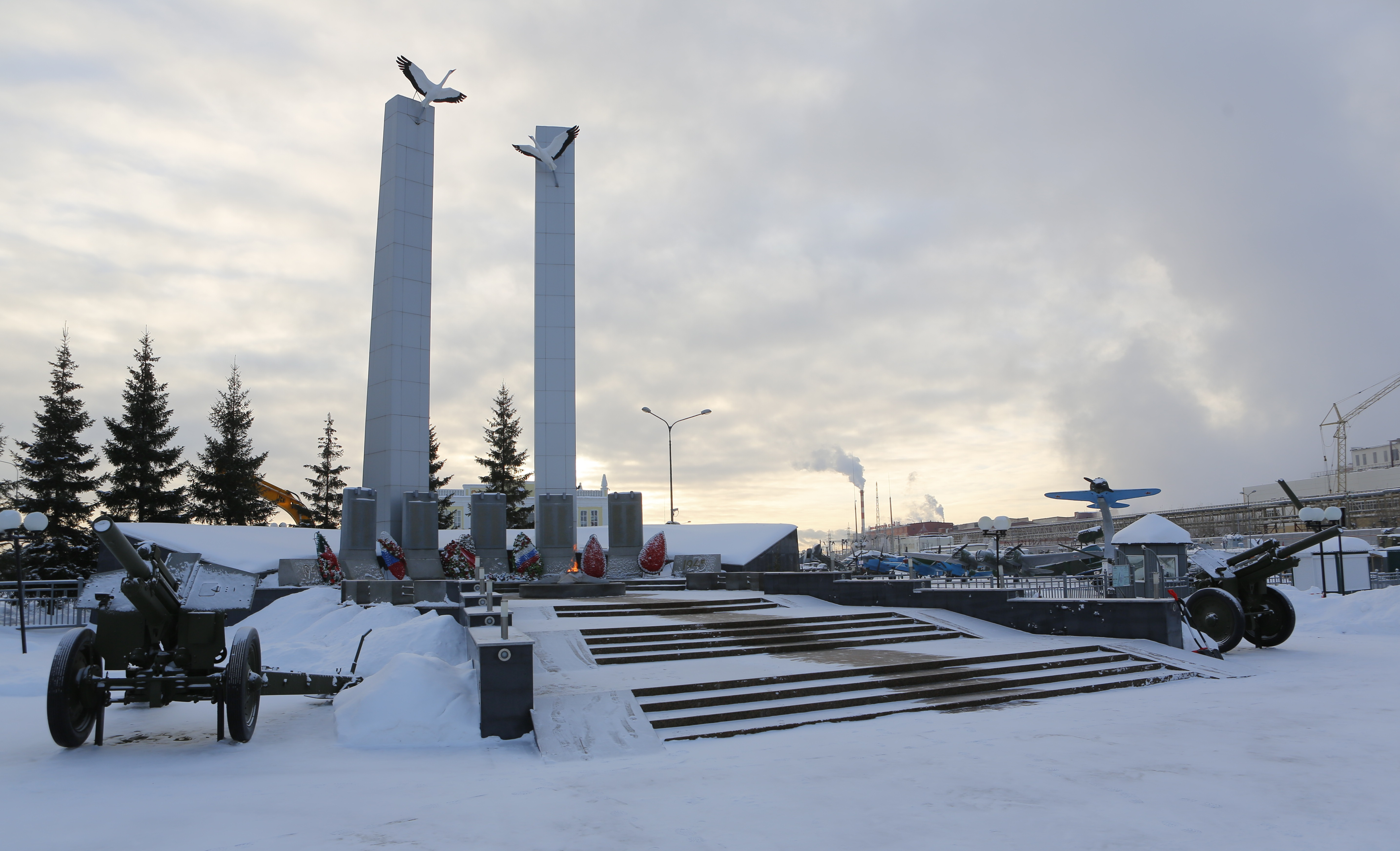 Verkhnaya Pyshma Field Military Museum of UMMC